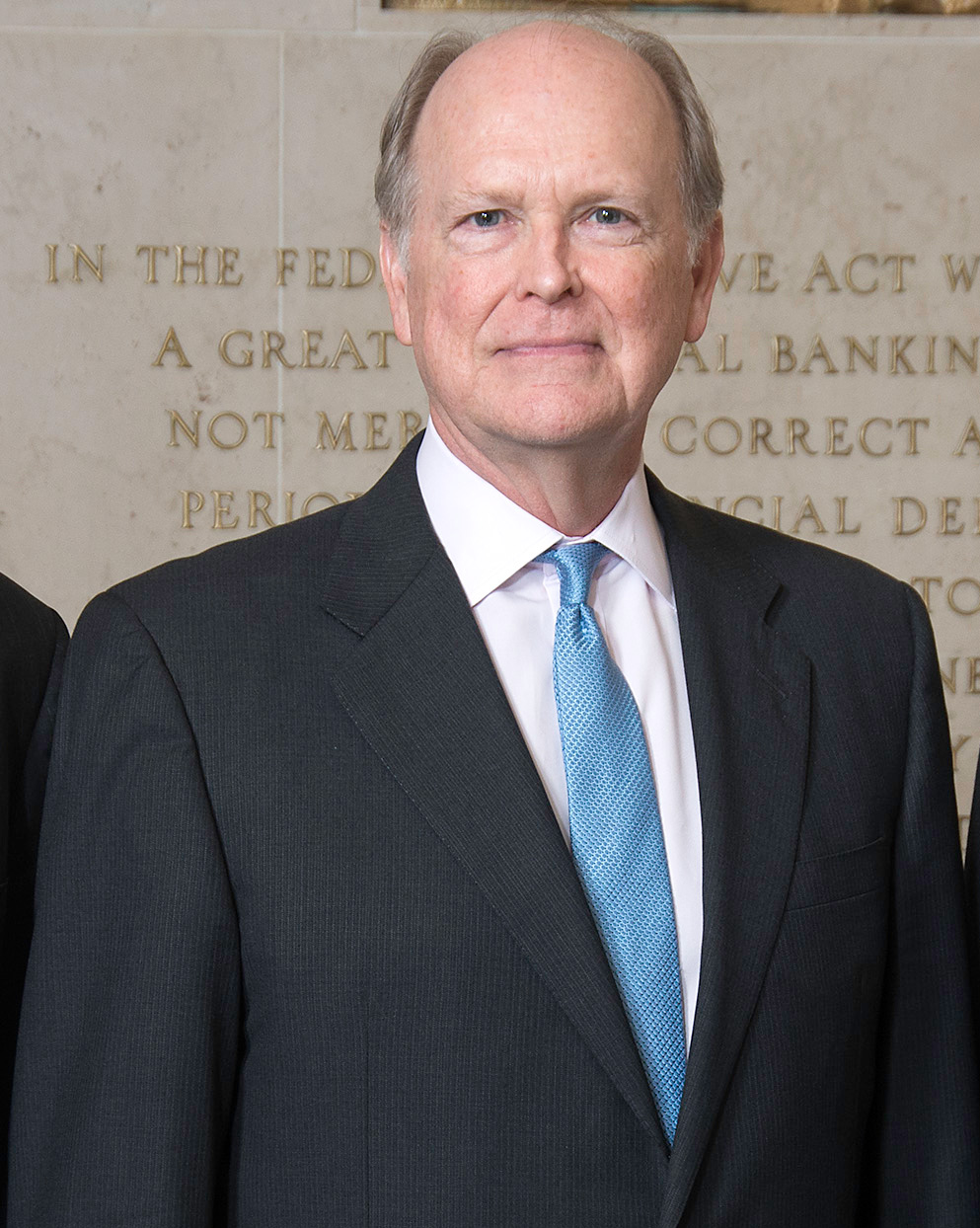 Current and Former FRB Philadelphia Presidents (Left to Right: Edward G. Boehne; Charles I. Plosser; Anthony M. Santomero)